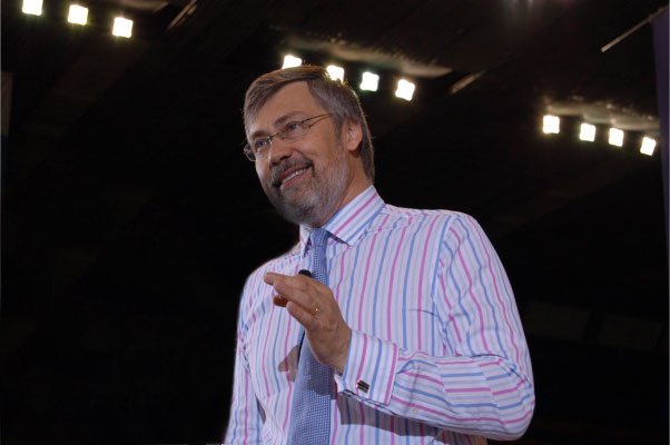 Christian theologist and preacher Ulf Ekman during his annual meeting in Moscow, Russia